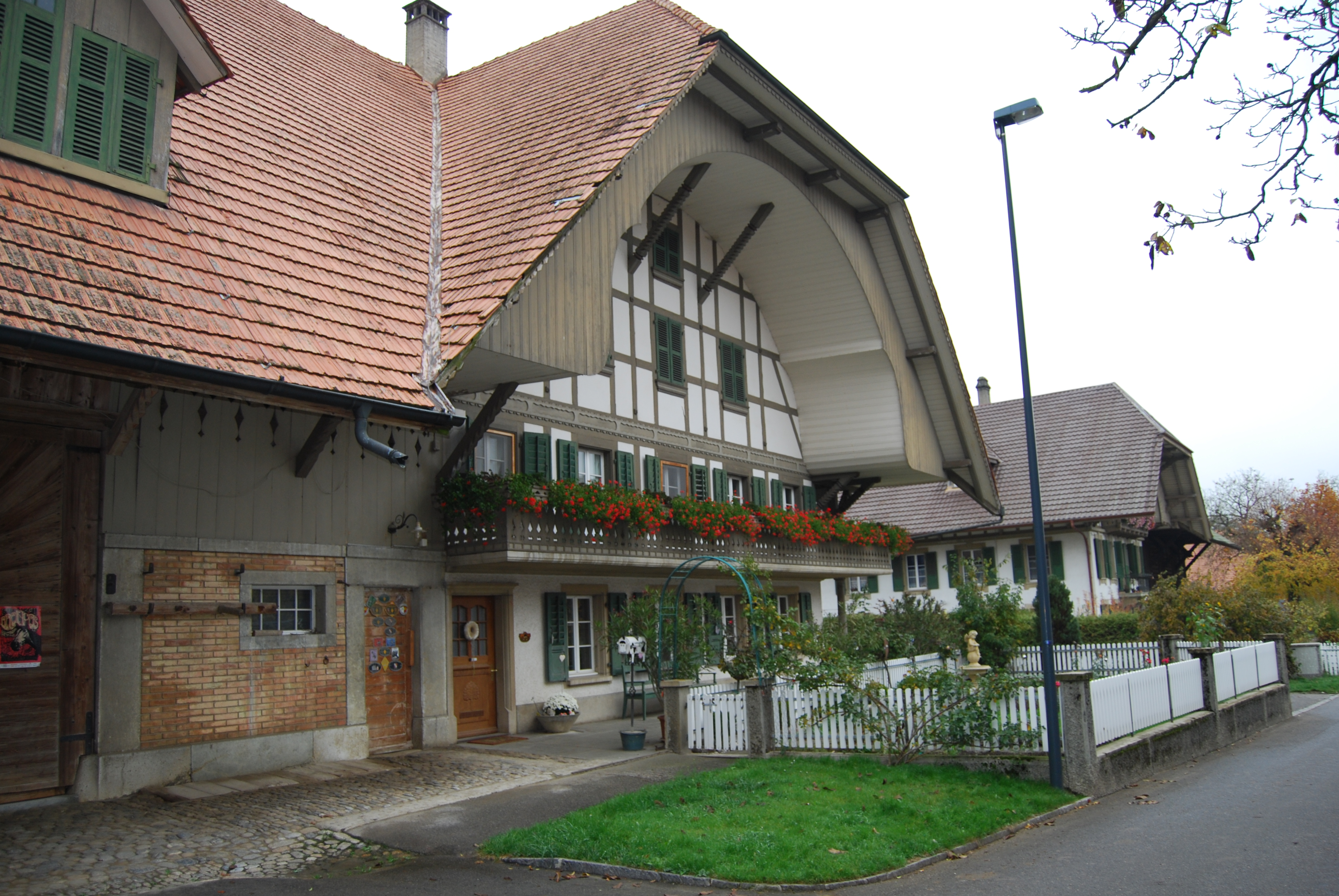 Timber framing house at Bangerten, canton of Bern, Switzerland